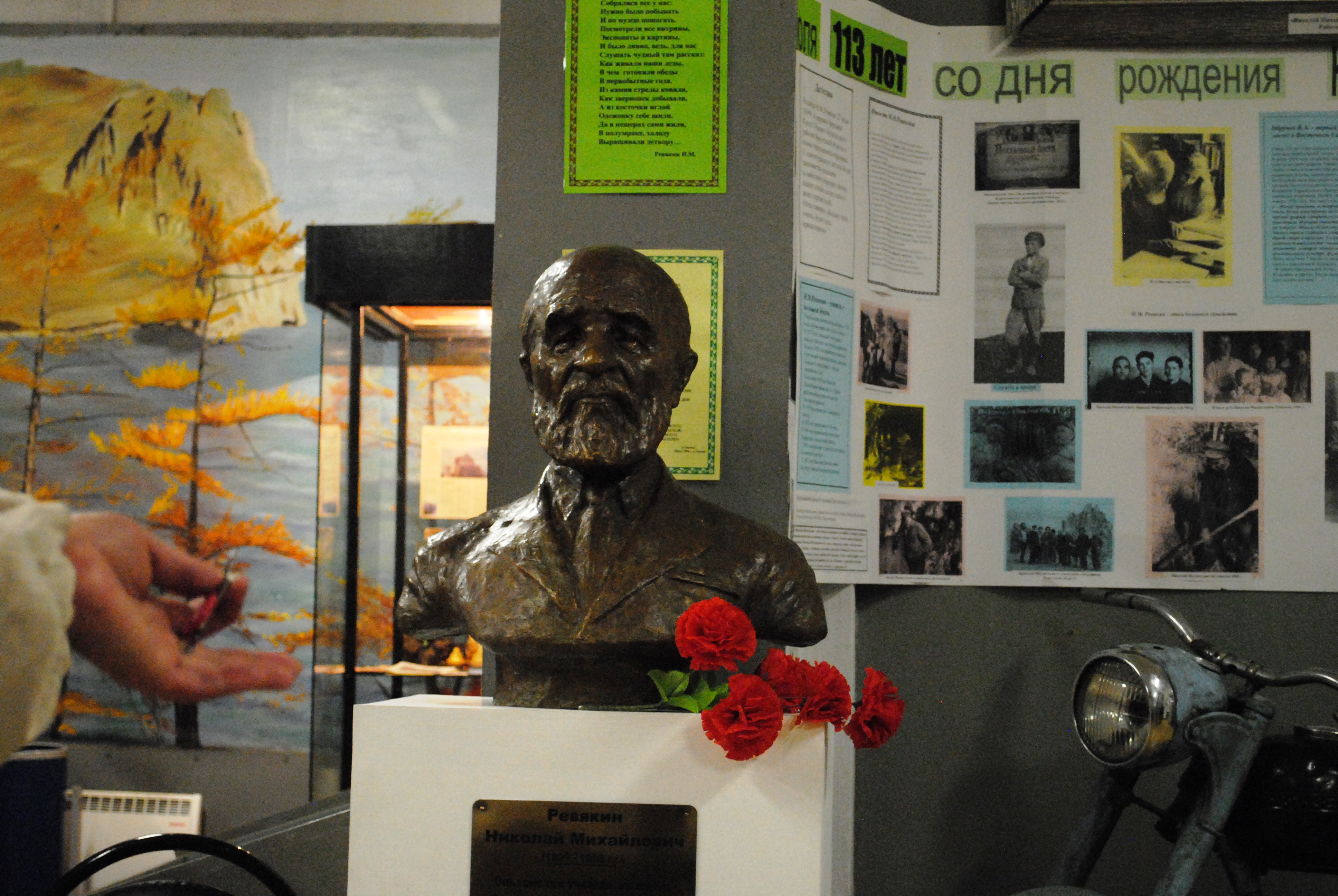 Olkhon